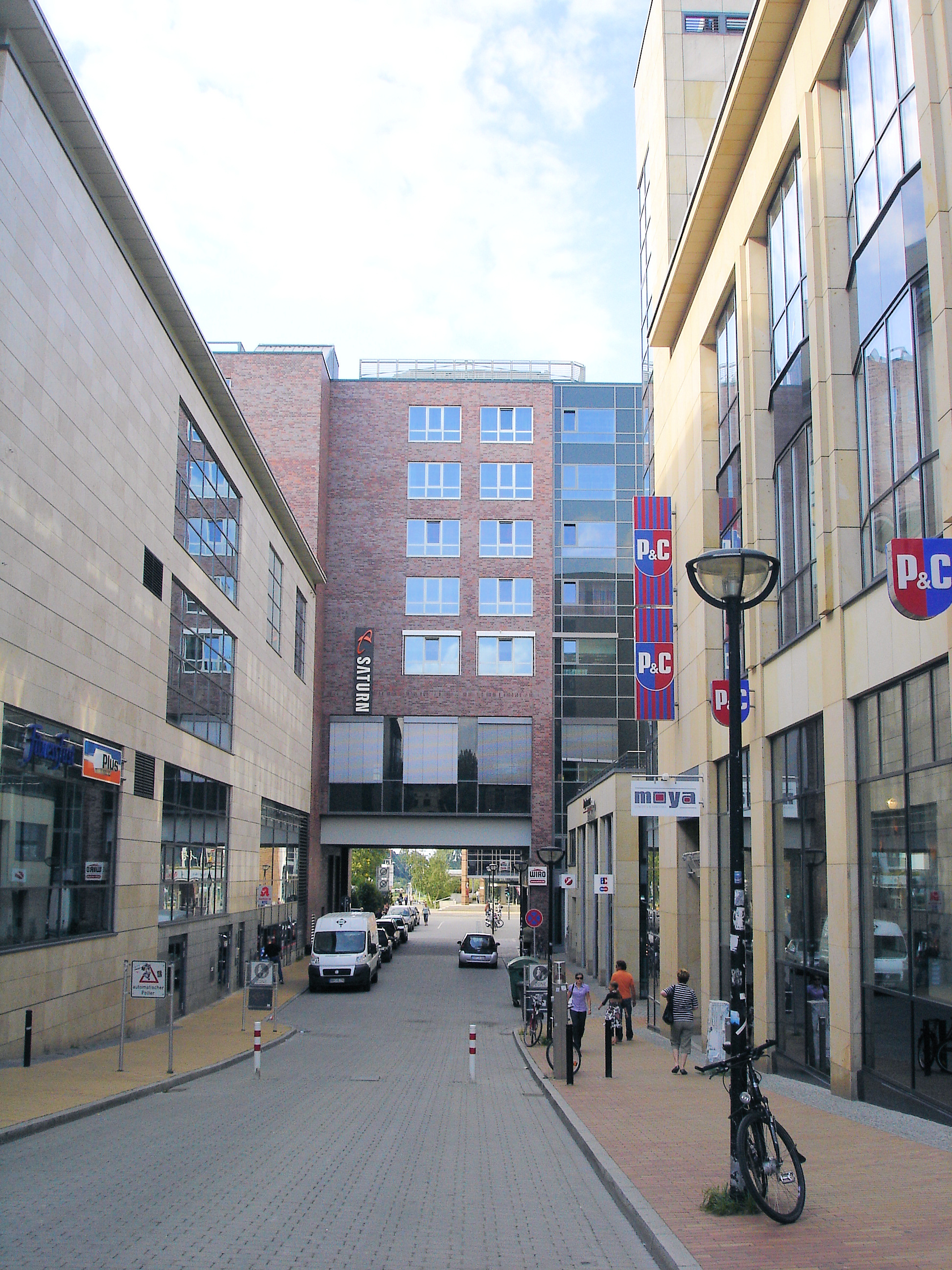 Street in the historic city of Rostock